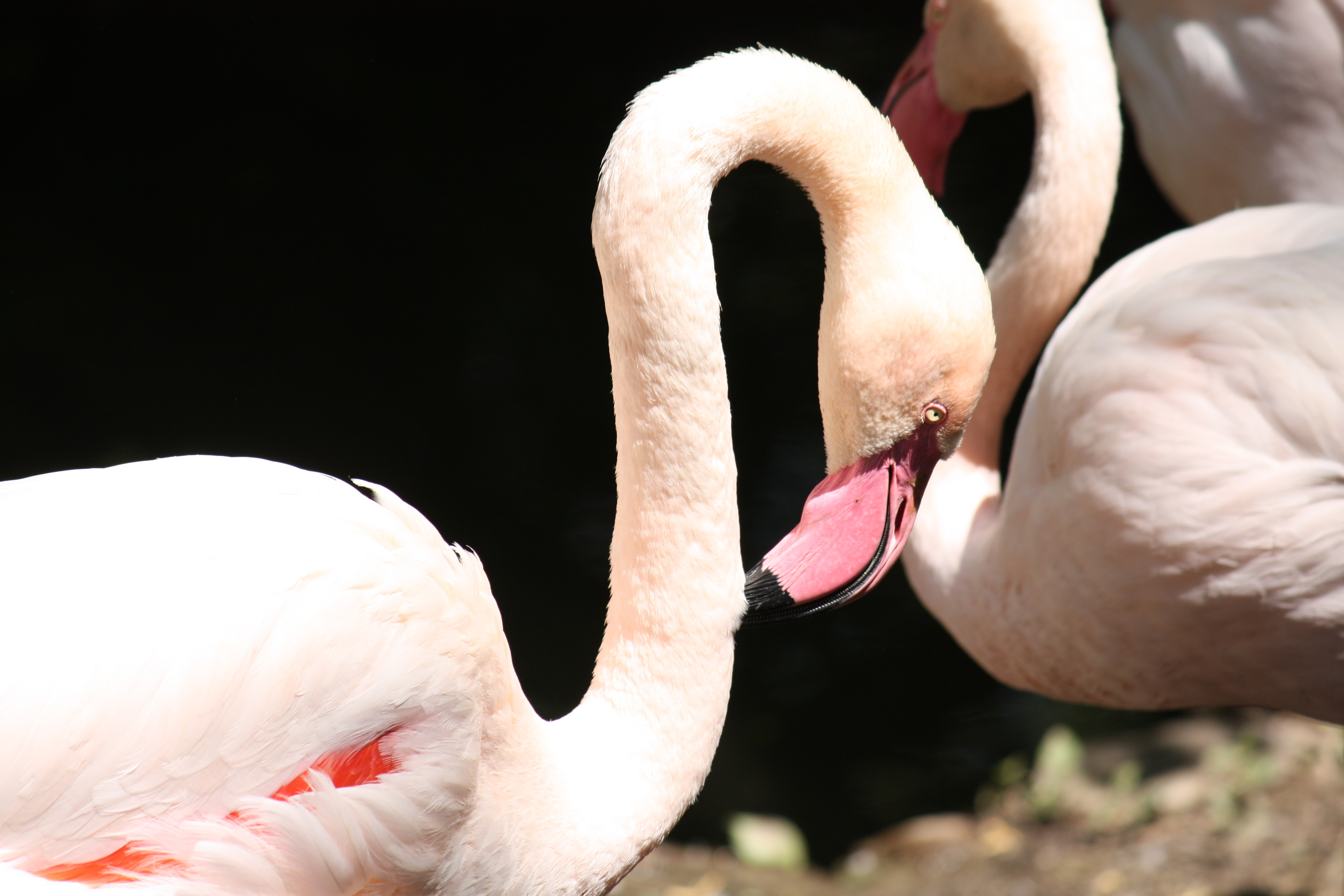 Greater Flamingo Phoenicopterus roseus at Cincinnati Zoo